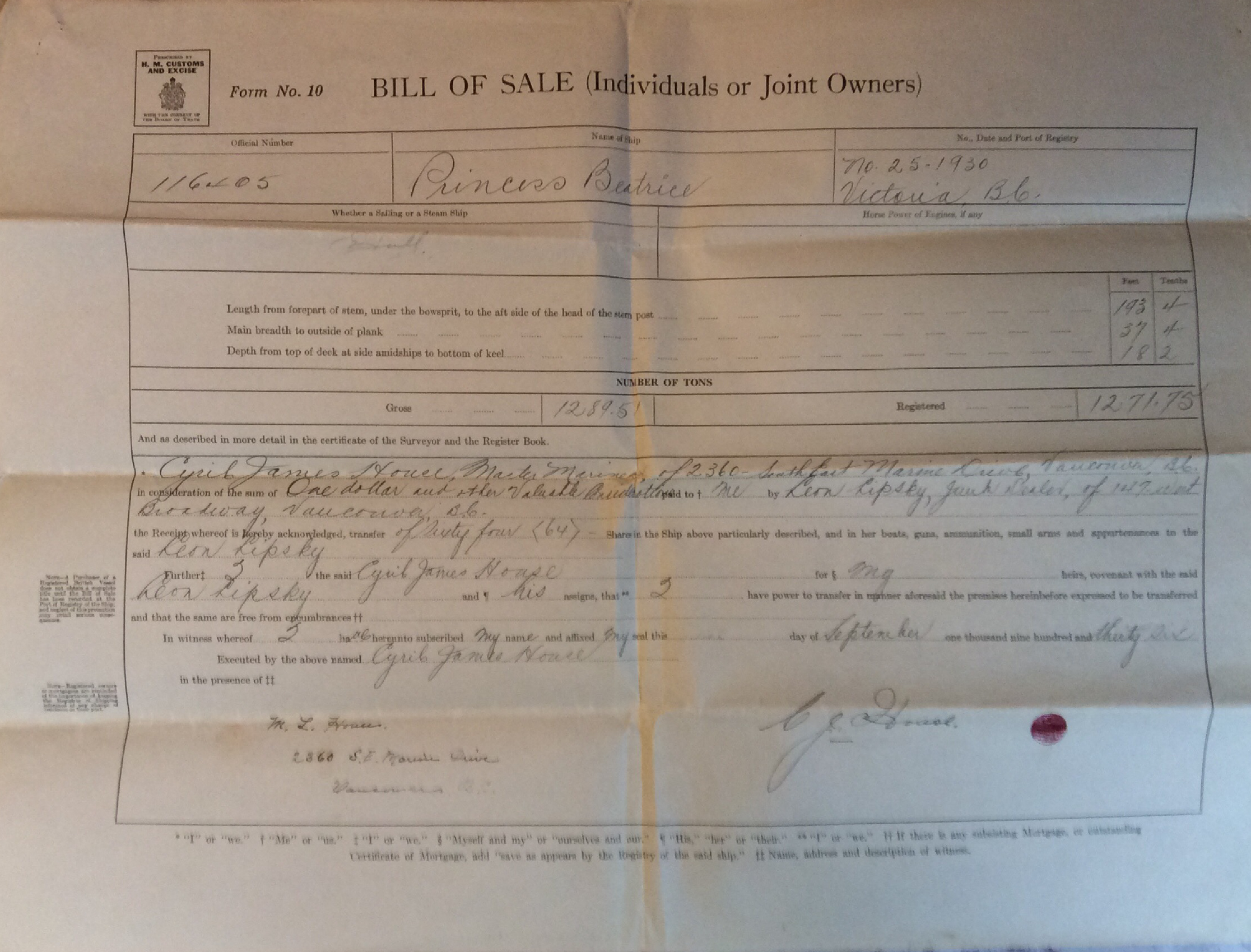 This is bill of sale for the SS Beatrice between British Columbia Packers Limited and Captain House.